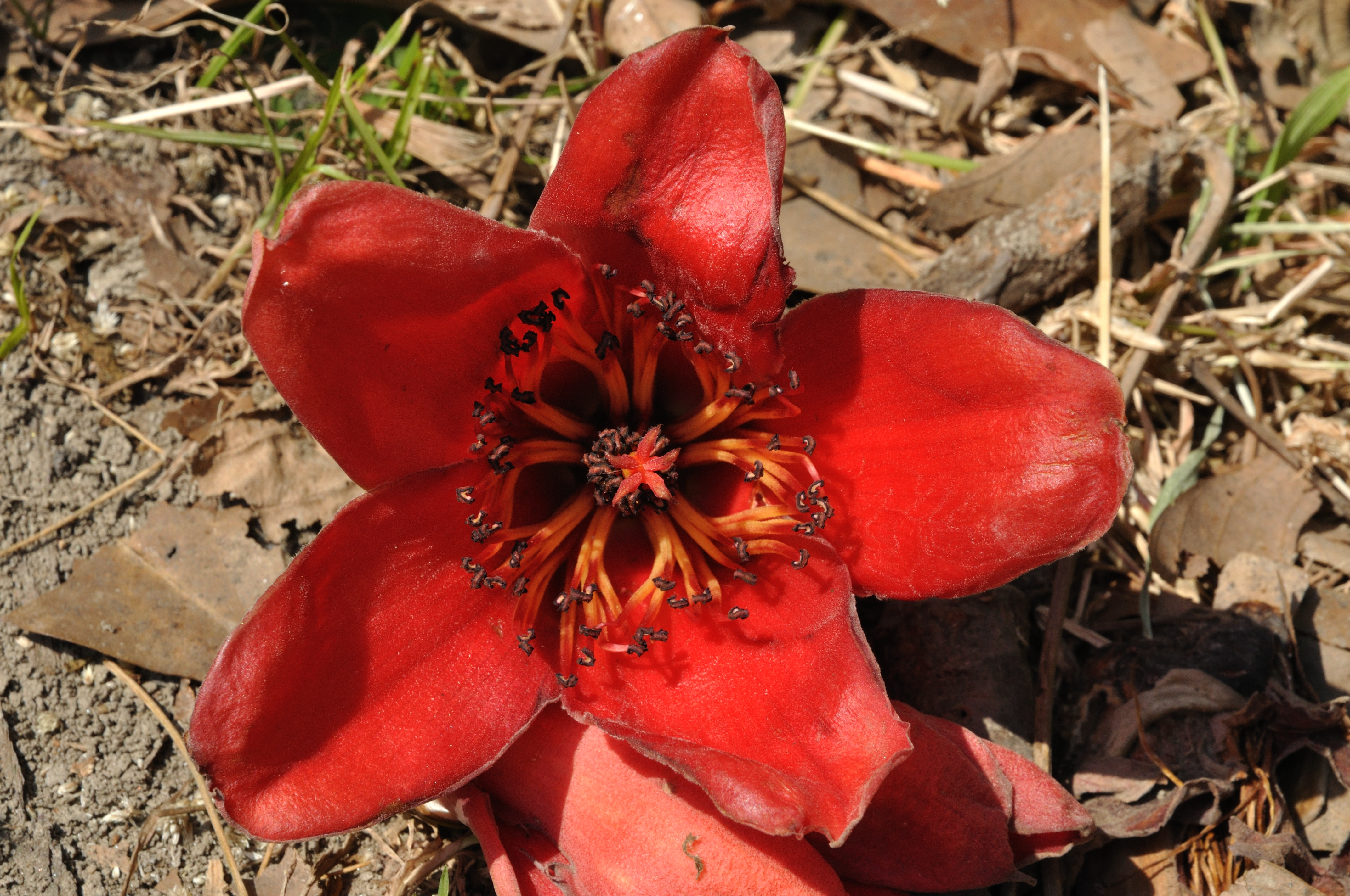 Common name: Silk Cotton Flower, Red Cotton Flower, Kapok Flower. Hindi: Shalmali, Semal. Manipuri: Tera. Assamese: Dumboil. Tamil: Sittan, Sanmali, Malayalam: Unnamurika, Bengali: Shimul. Botanical name: Bombax ceiba, Family: Bombacaceae (baobab family). Synonyms: Salmalia malabarica.